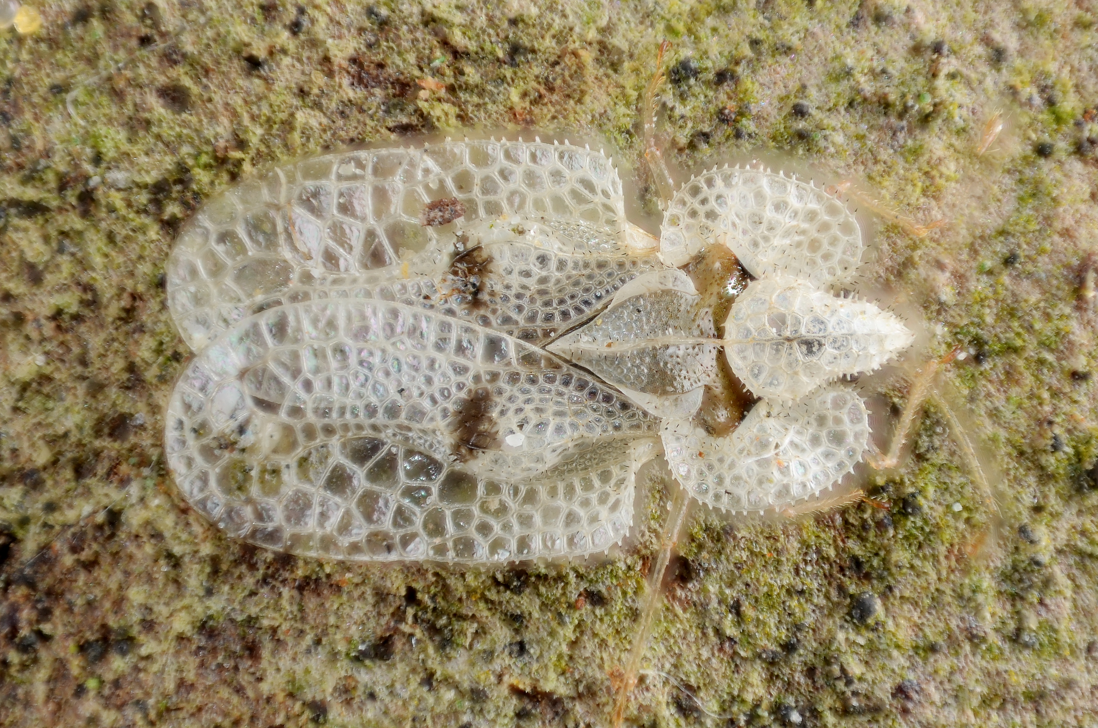 Corythucha ciliata (Hemiptera, Tingidae) Sycamore Lace Bug Scale : bug length ~ 3.8 mm Technical settings : - focus stack of 25 images - Leitz Photar 25mm objective at f/5.6 on bellow